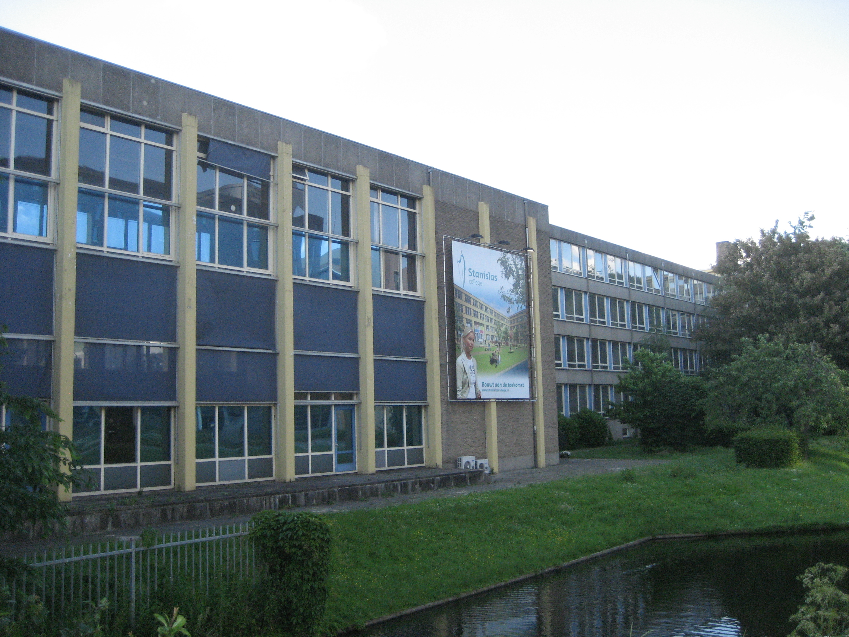 Stanislas College Rijswijk (ZH), The Netherlands. Former (Interconfessioneel) Lodewijk Makeblijde College, H. Roland Holstlaan, Rijswijk